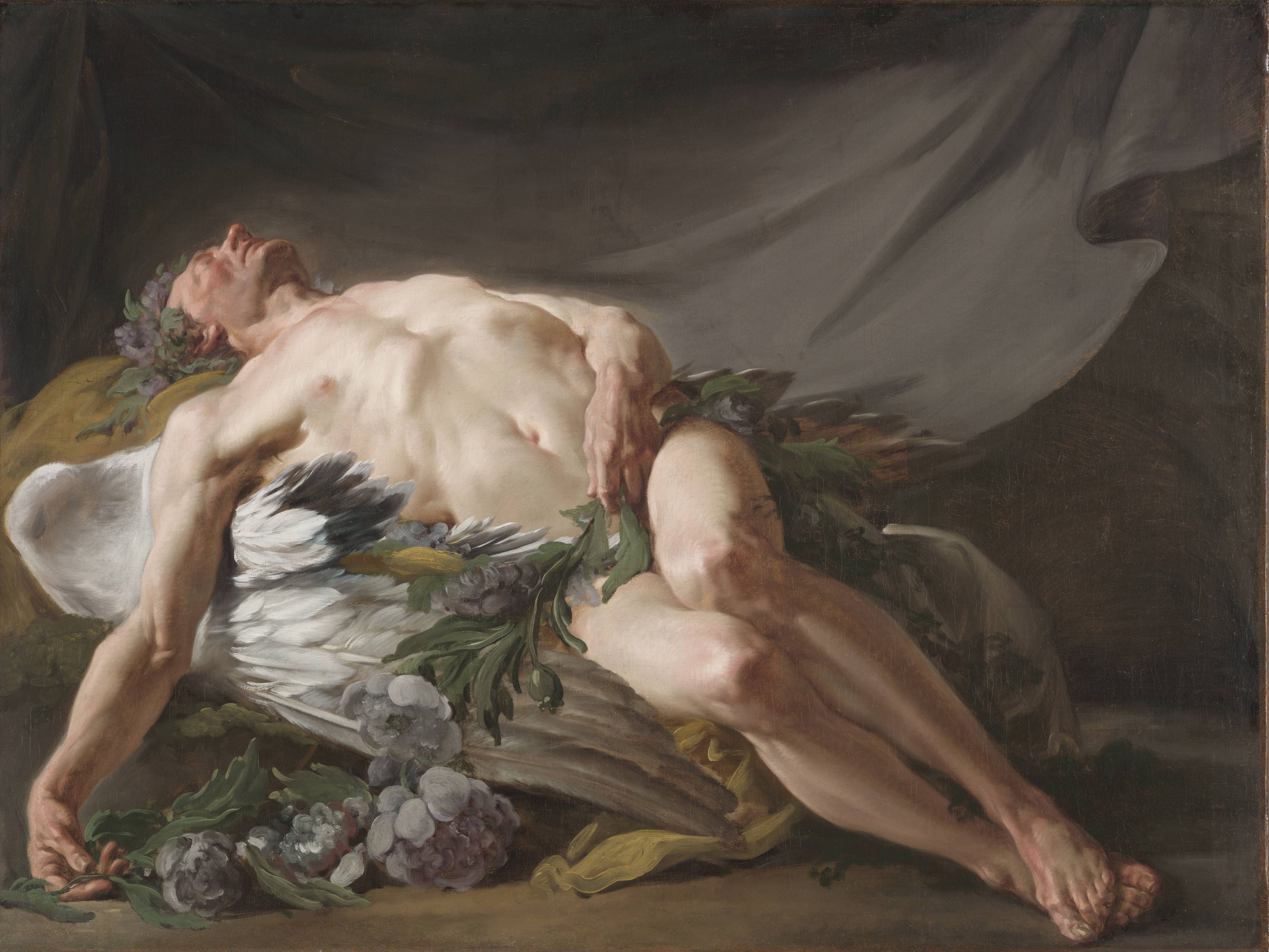 Morpheus